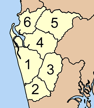 Map of Thai Mueang district, Phang Nga province, Thailand, with the communes (tambon) numbered. Thai Mueang (ท้ายเหมือง) Na Toei (นาเตย) Bang Thong (บางทอง) Thung Maphrao (ทุ่งมะพร้าว) Lam Phi (ลำภี) Lam Kaen (ลำแก่น)